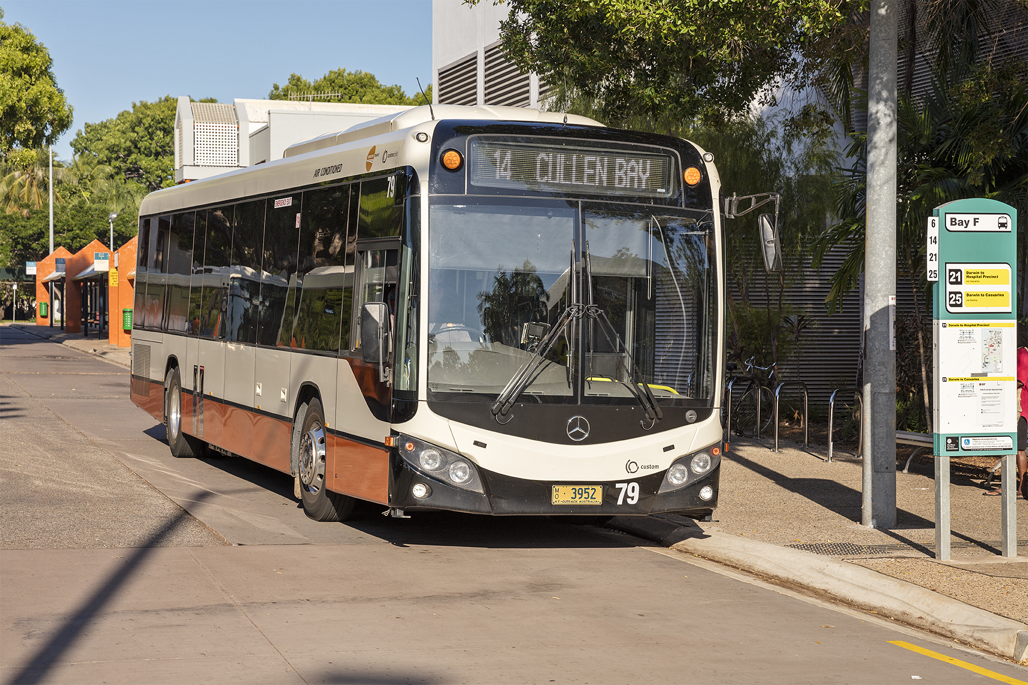 Territory Transit (mo 3952) Custom Coaches CB80 bodied Mercedes O500LE at Bay F of the Darwin Interchange.